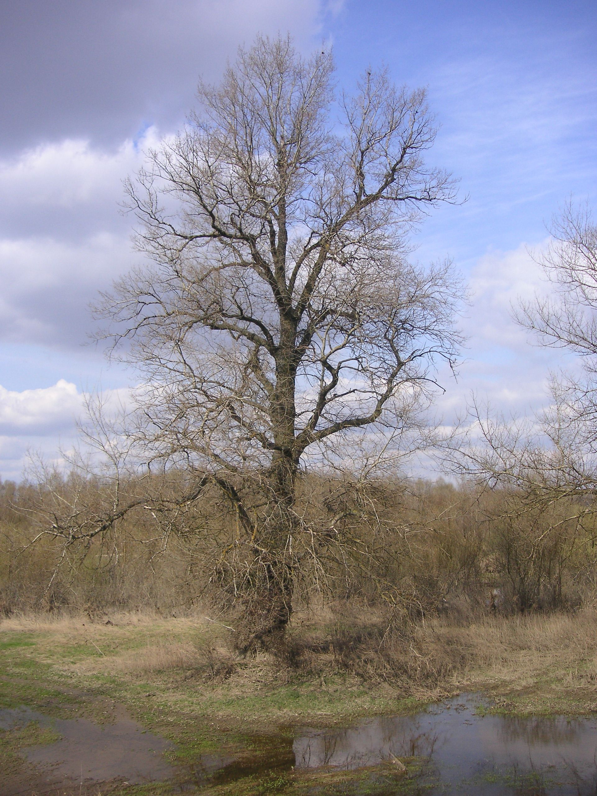 Black Poplar Populus nigra, author: Wojsyl